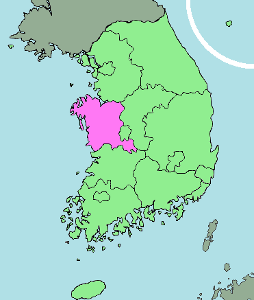 area map of Chungcheongnam